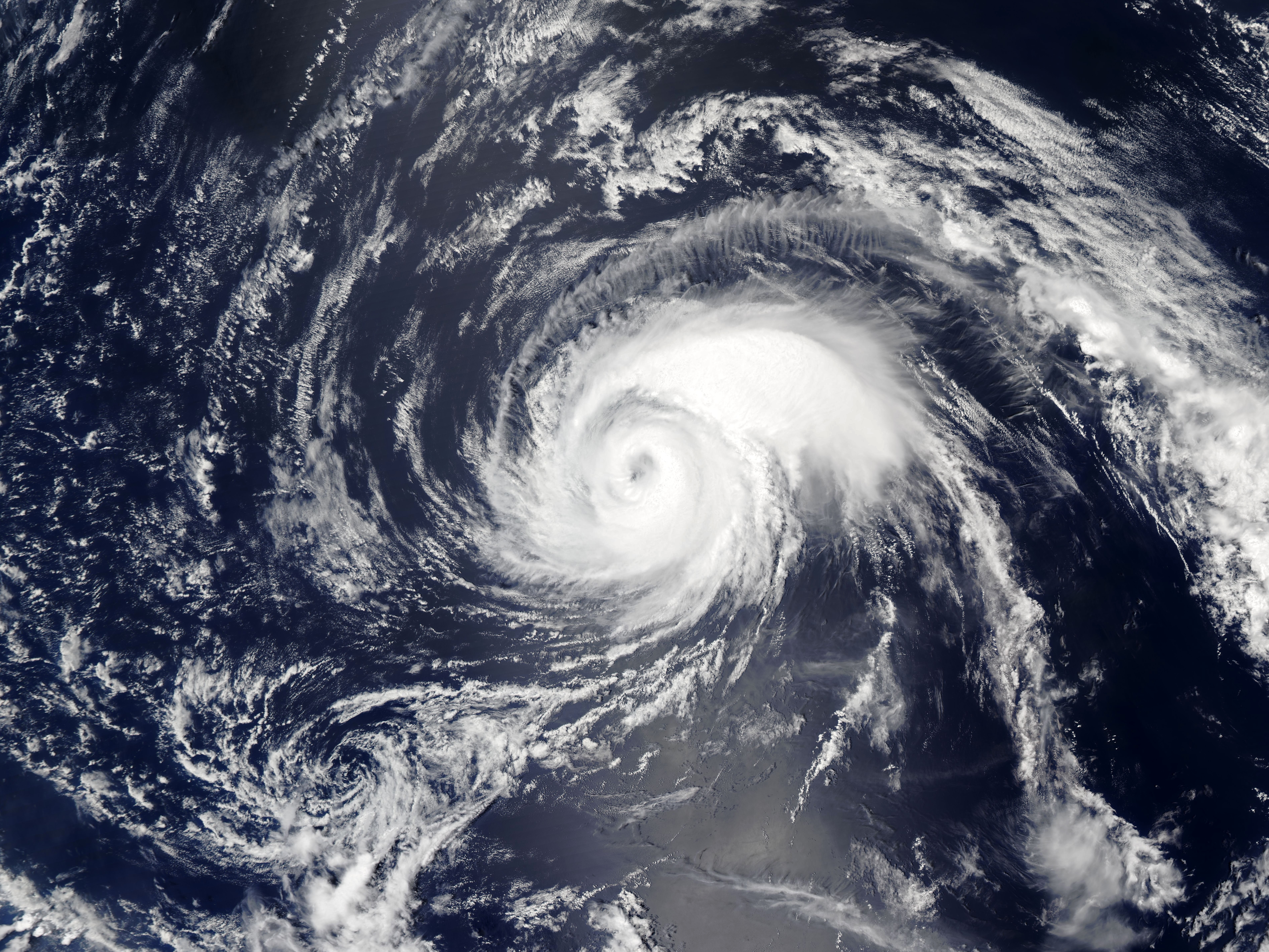 Typhoon Noru absorbing the remnants of Tropical Storm Kulap over the Northwest Pacific Ocean early on July 27, 2017.